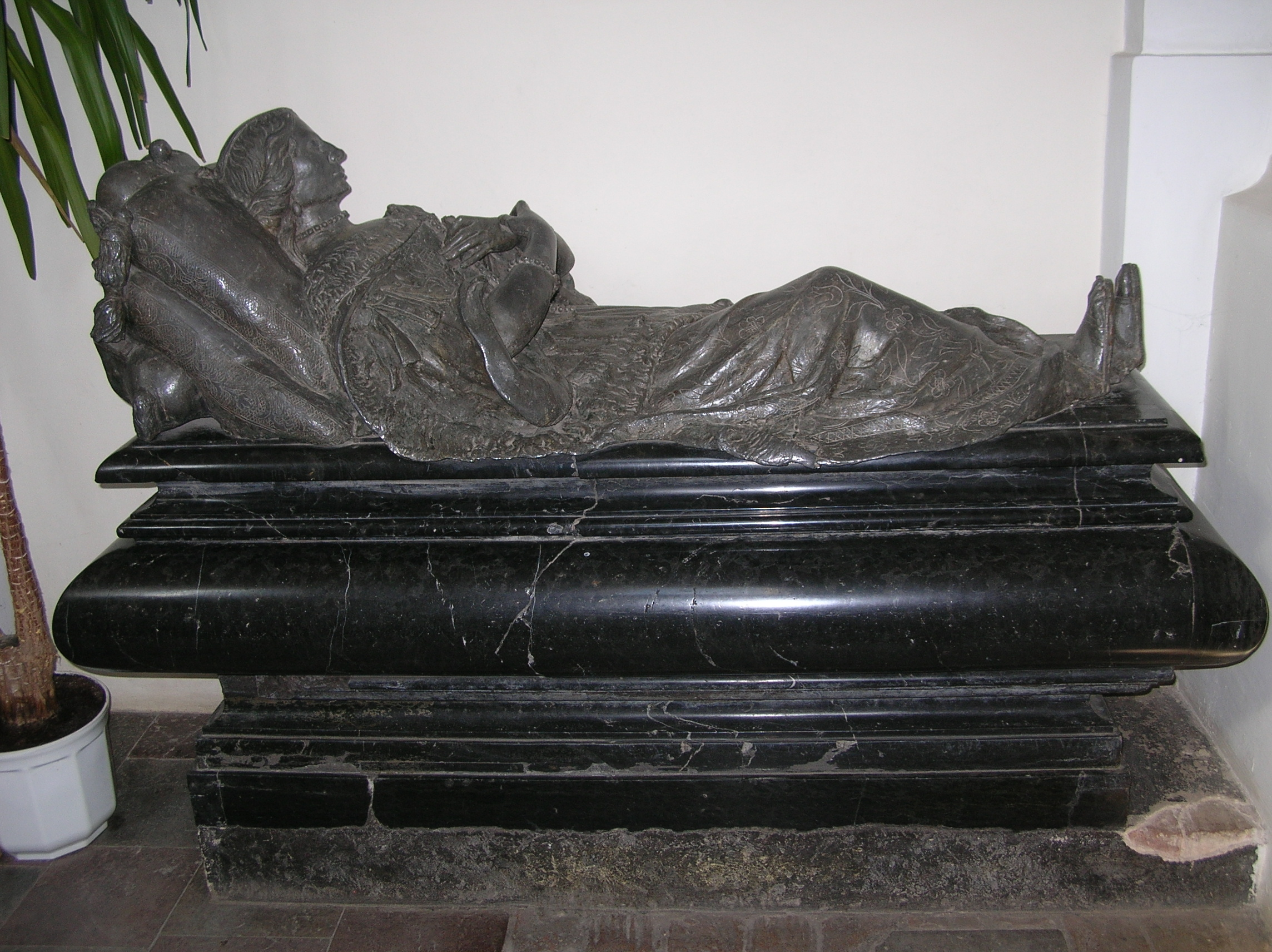 Tylman van Gameren, tomb of Zofia Lubomirska